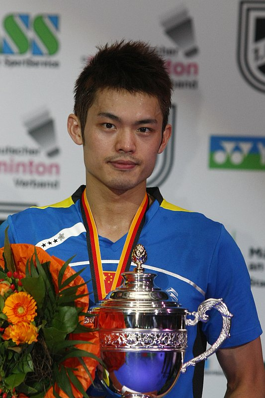 Lin Dan